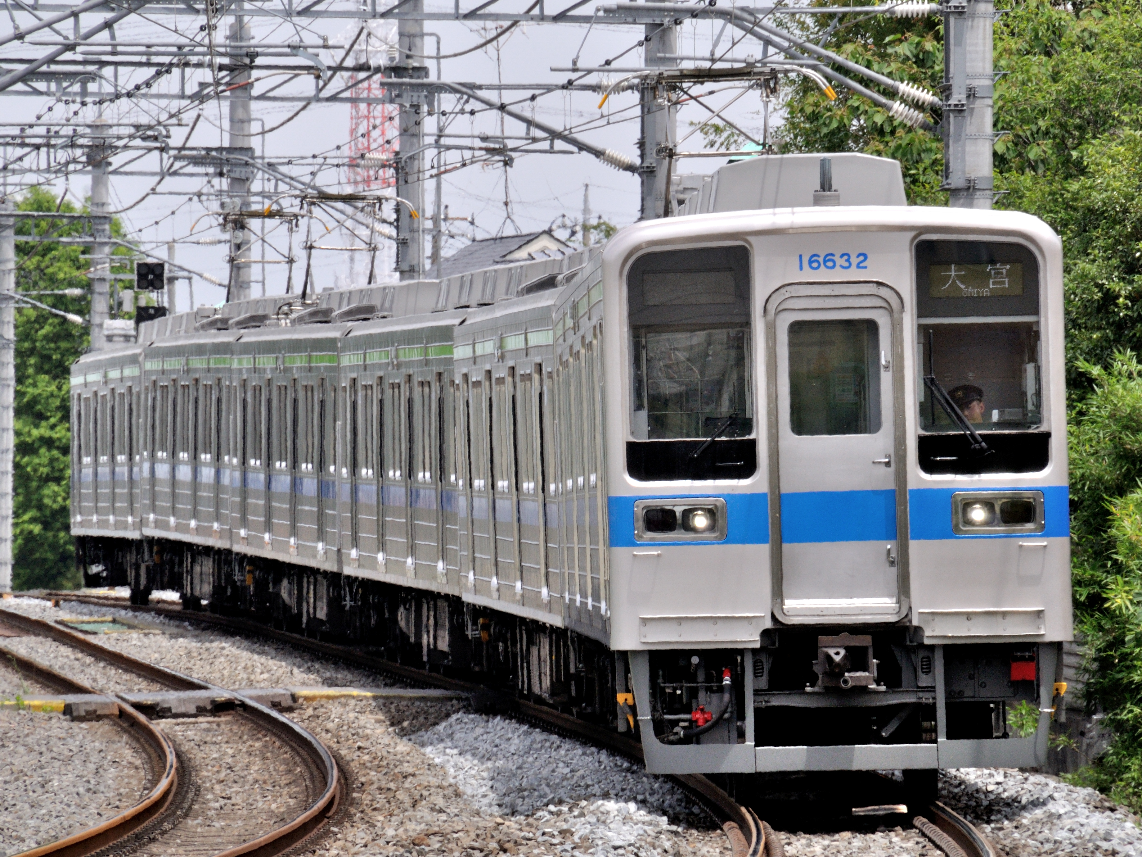 Refurbished Tobu 10030 series 6-car EMU set 11632 on the Tobu Noda Line